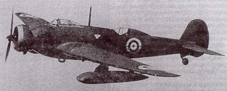 Vickers Wellesley in flight.